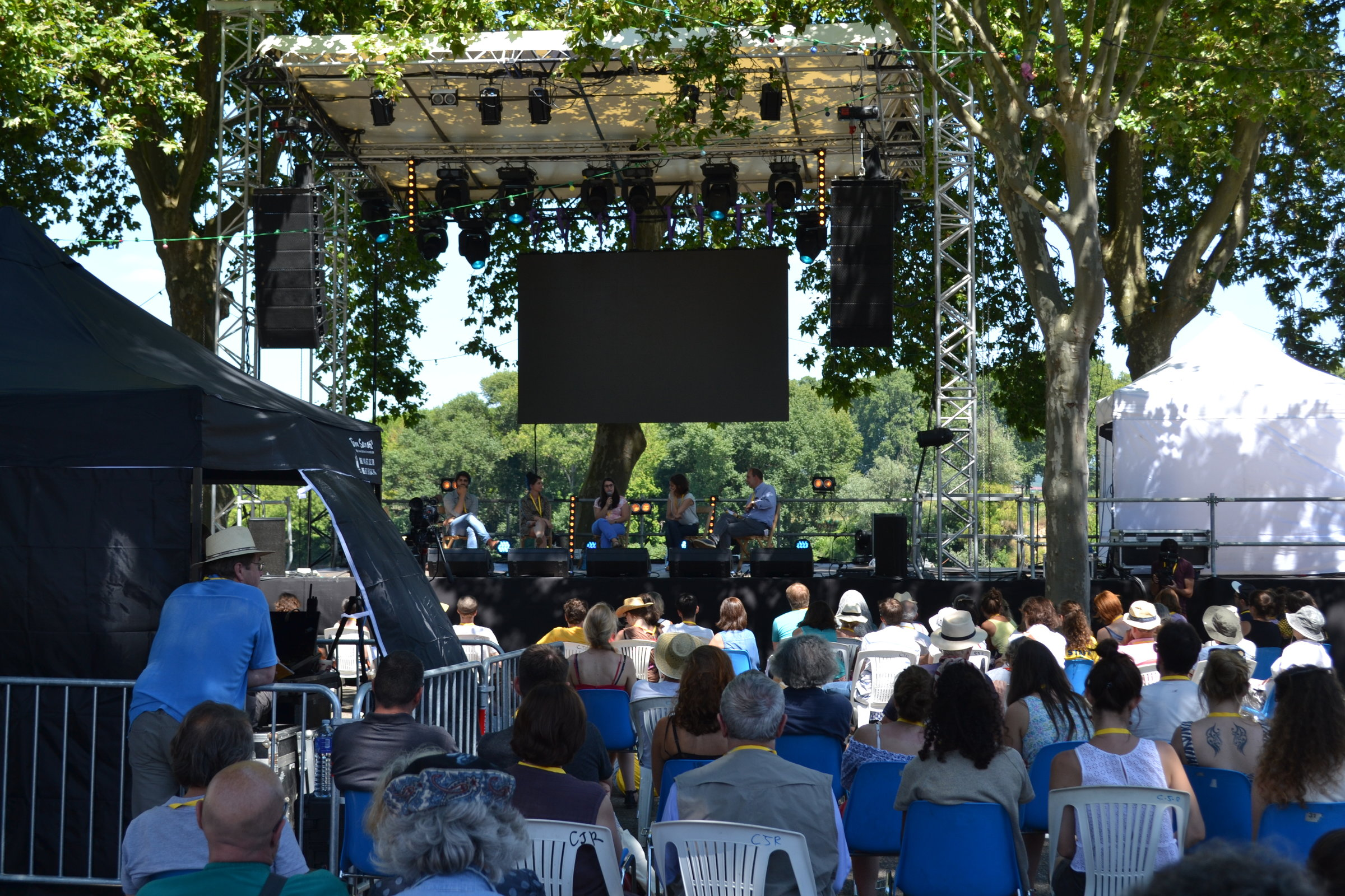 Conference about changes in press during Les Ateliers de Couthures 2016 in Couthures-sur-Garonne.